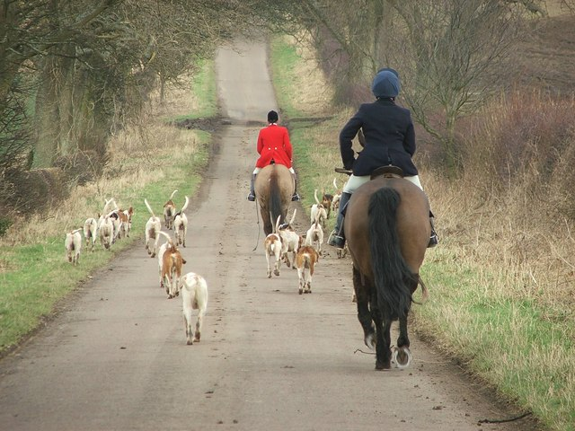 Horse and Hounds Local hunt